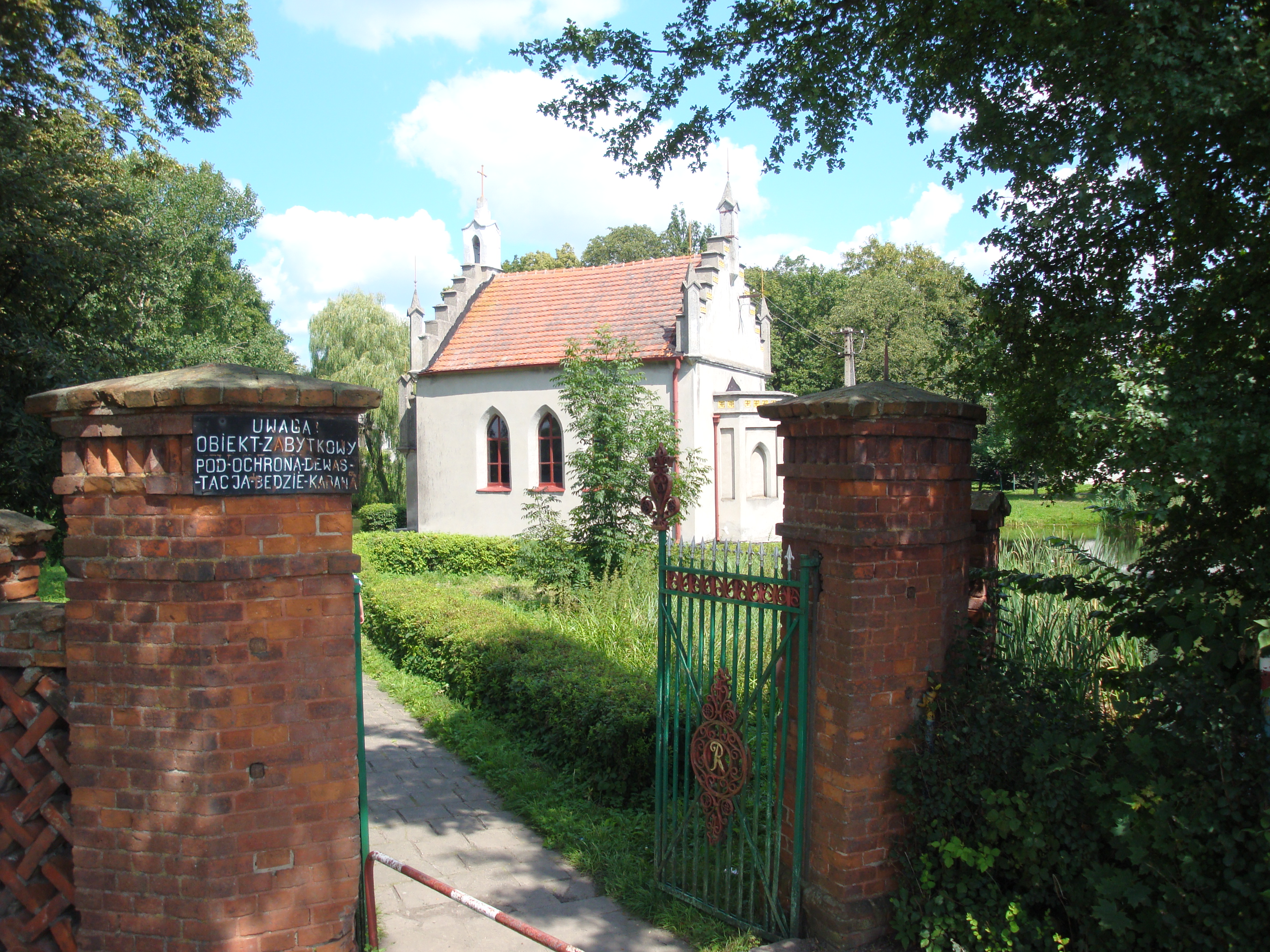 Park and chappel in village Dębieniec, Poland